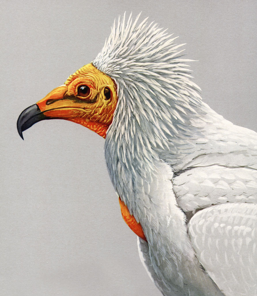 Egyptian Vulture, Neophron percnopterus, offset reproduction of watercolor